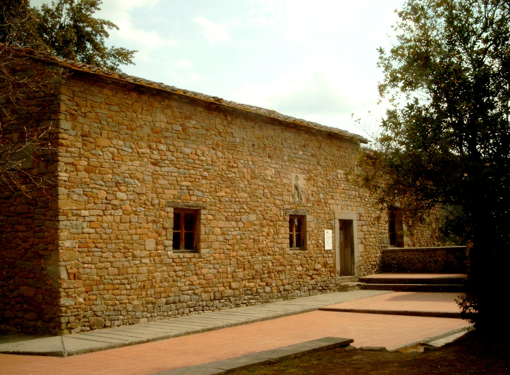 The house where Leonardo da Vinci was born.